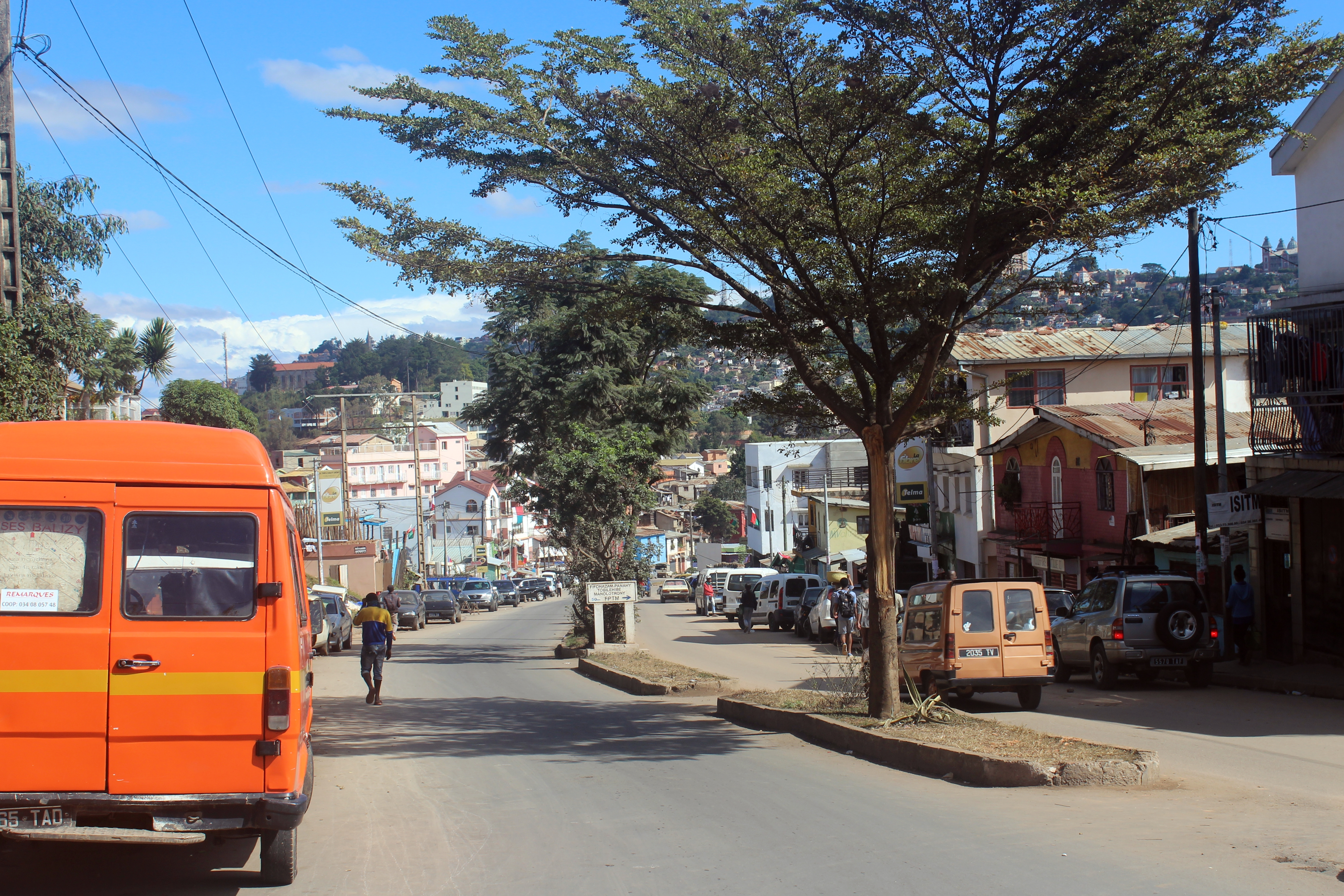 Madagascar's National Road 2bis, seen from the junction to the University in western direction to the city center